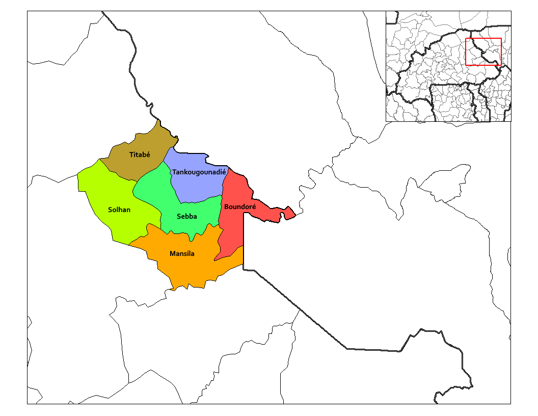 This map has been uploaded by Osiris fancy from to enable the Wikimedia Atlas of the World. Original uploader to was Rarelibra. Osiris fancy is not the creator of this map. Licensing information is below. Map of the Yagha province in Burkina Faso. Created by Rarelibra 03:39, 30 September 2006 (UTC) for public domain use, using MapInfo Professional v8.5 and various mapping resources.